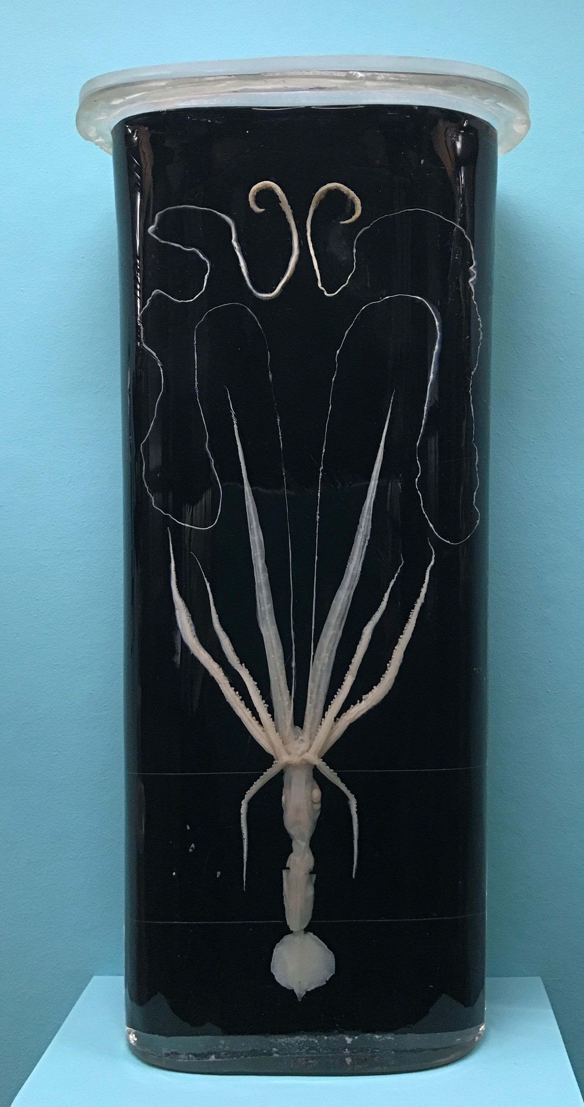 Squid Chiroteuthis veranyi preparation of the Museum of Natural History in Vienna